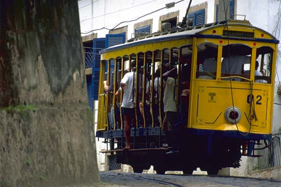 Photo taken by Brenomendes and released under the Public Domain